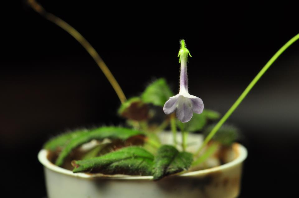 Sinningia muscicola plant